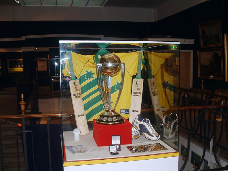 Cricket World Cup Trophy at Lords, England